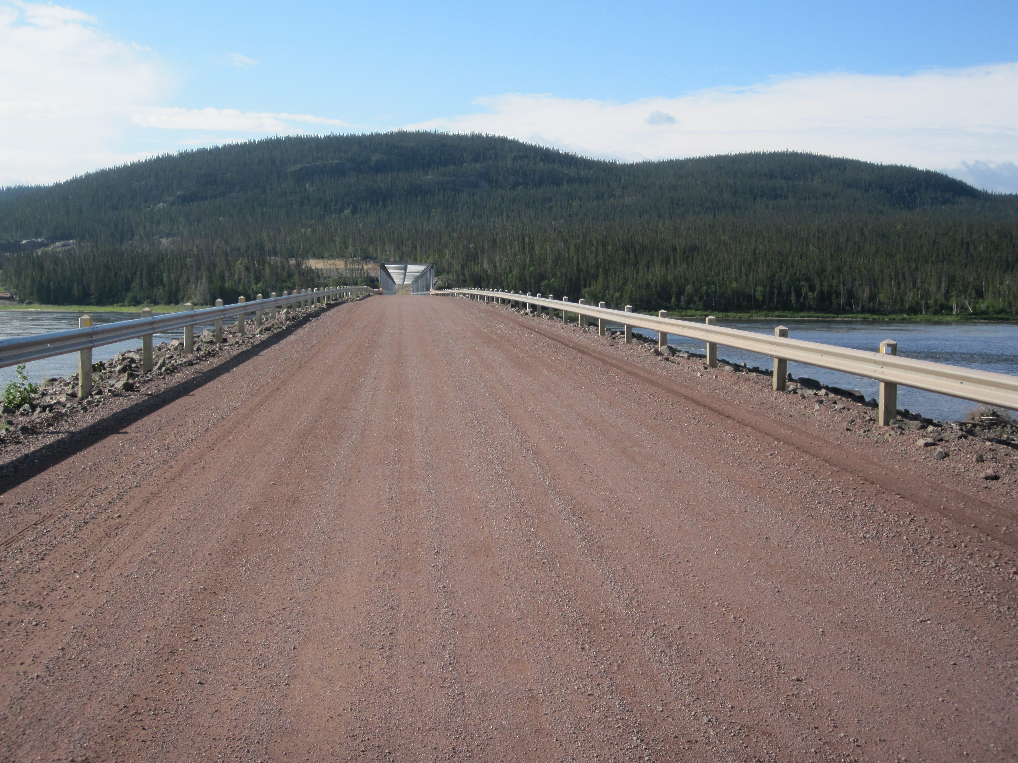 Churchill river